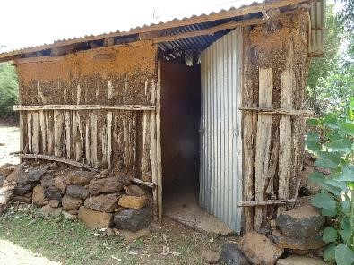 Mashih old school toilet